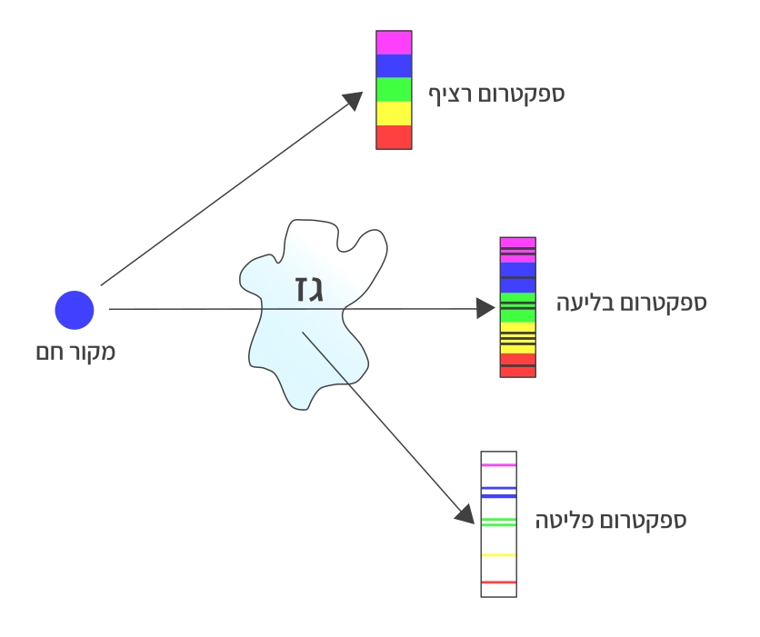 Emission Spectrum, Absorption spectrum, Continuous spectrum